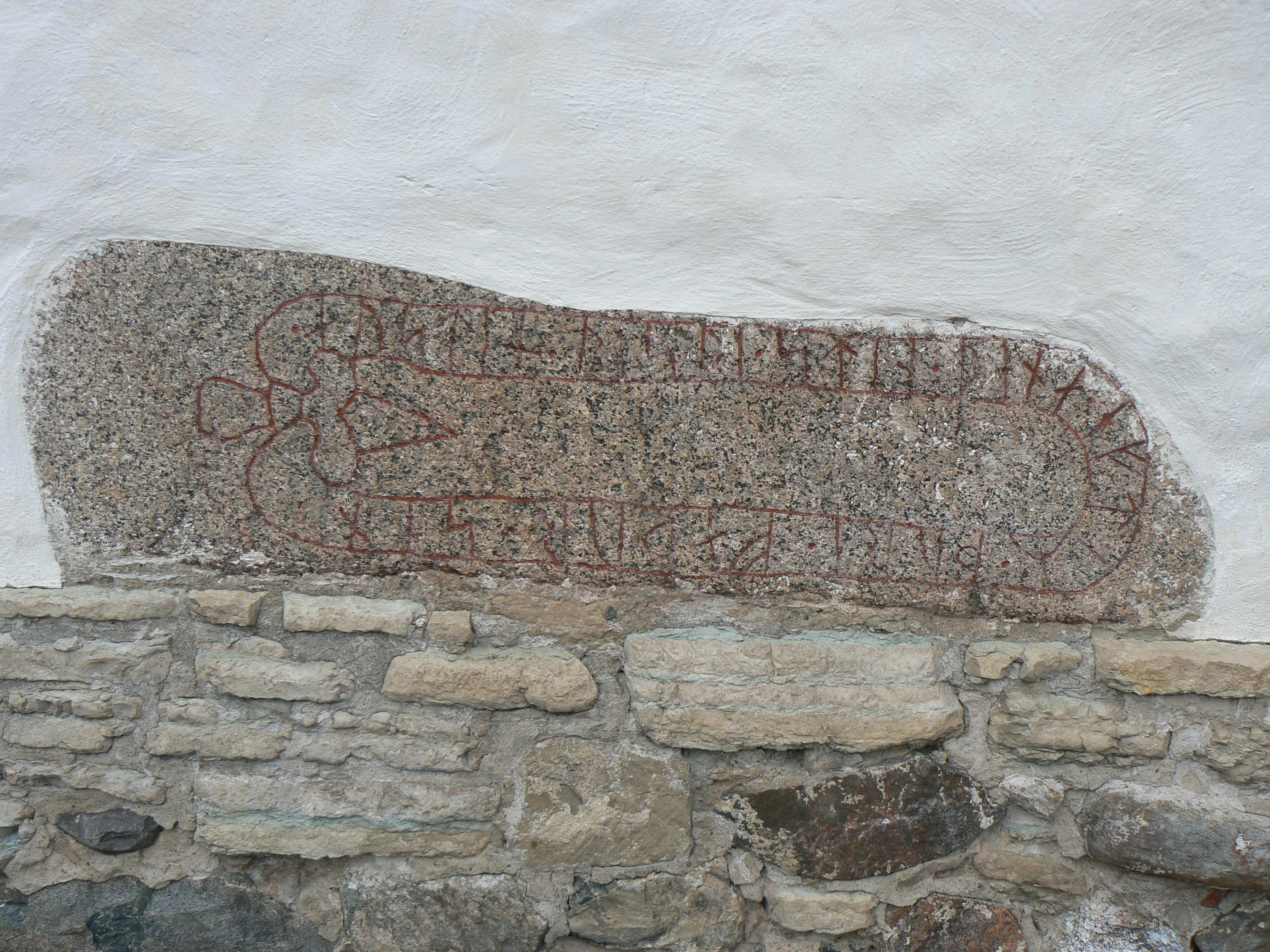 Runstone Ög 11, Sweden